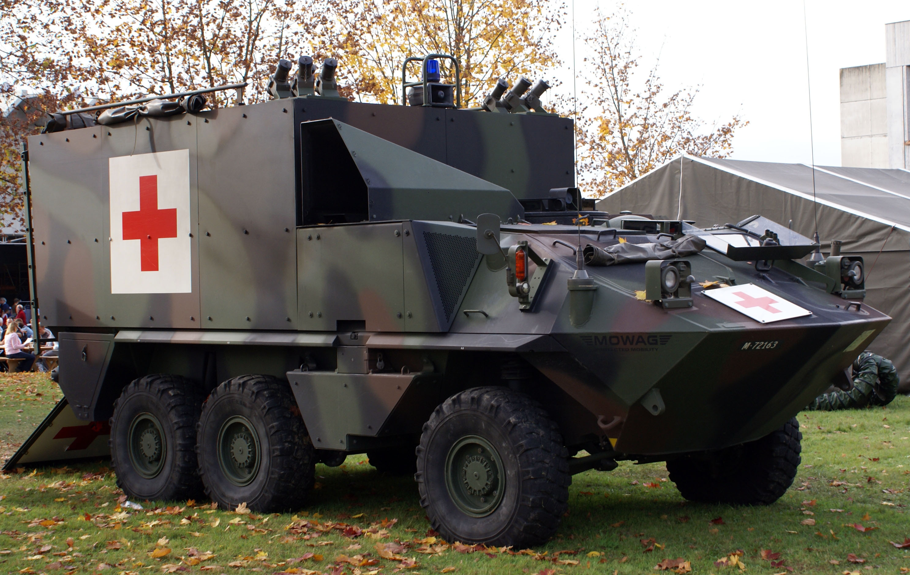 Swiss Army. Mowag Piranha 6x6 medical armoured personnel carrier.